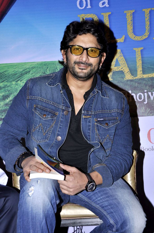 Arsha Warsi at Launch of Malti Bhojwani's 'Don't Think Of A Blue Ball' book